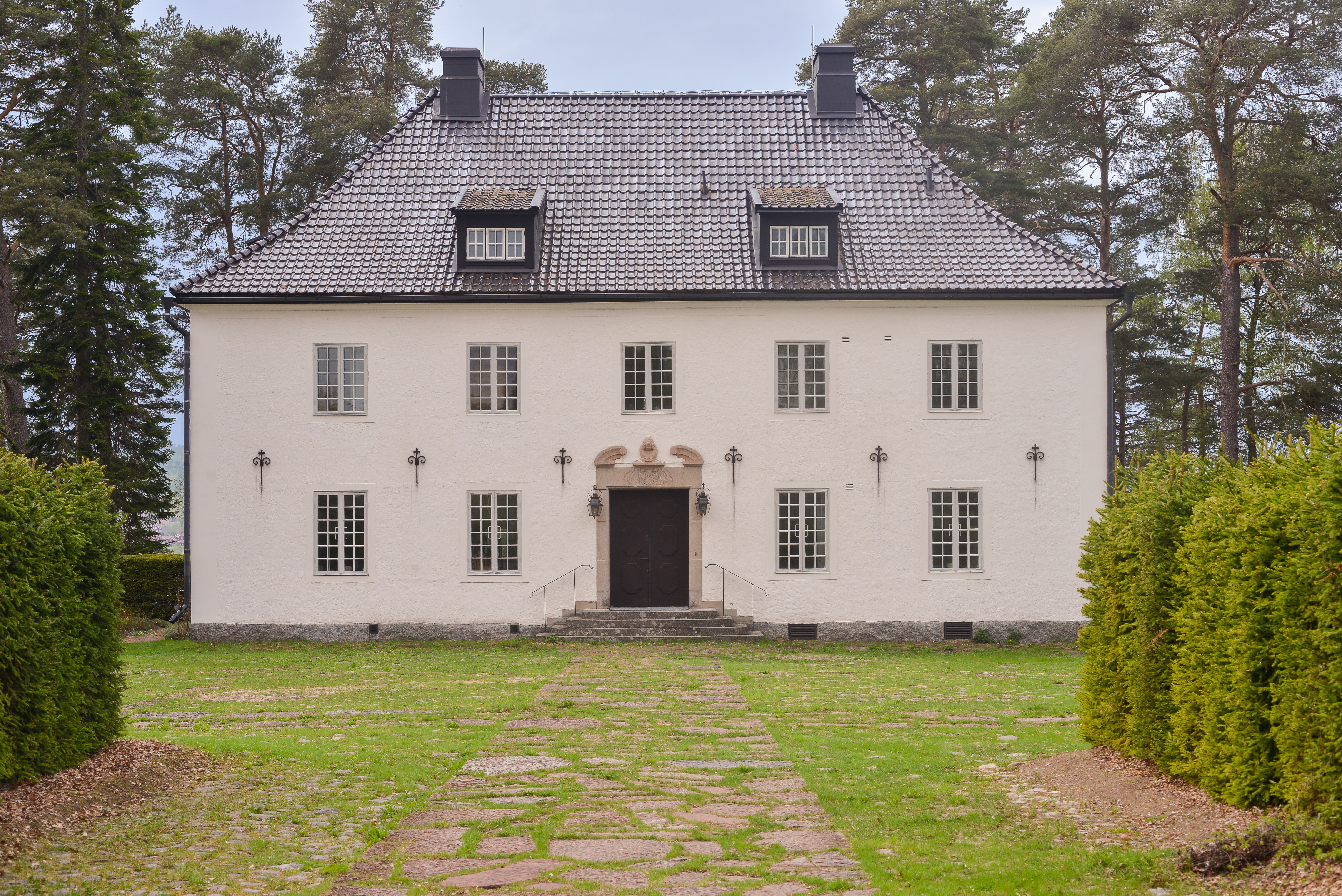 Hildasholm is a historic estate in Leksand built 1910–1911 by Axel Munthe. Architect Torben Grut.